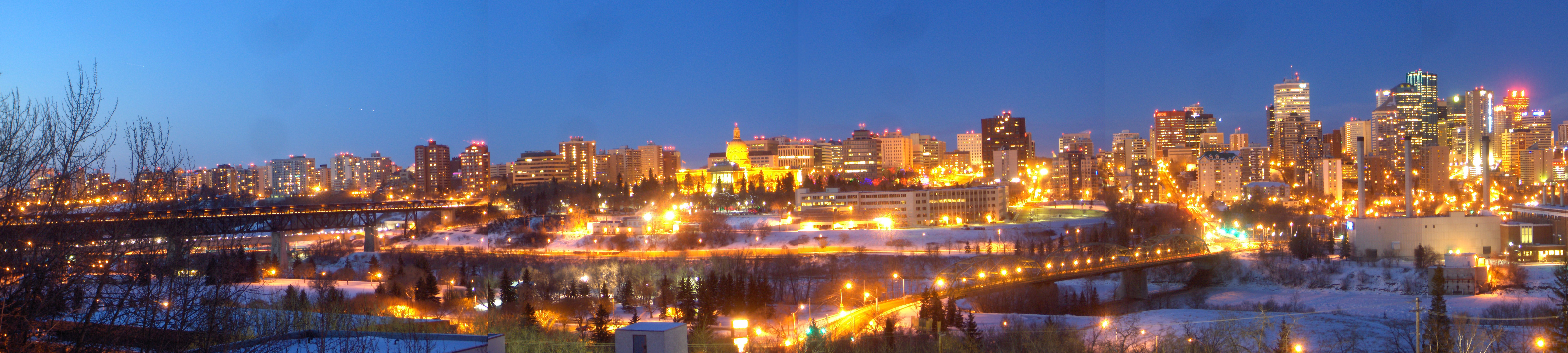 Cityscape of Edmonton, Alberta. January 2009.